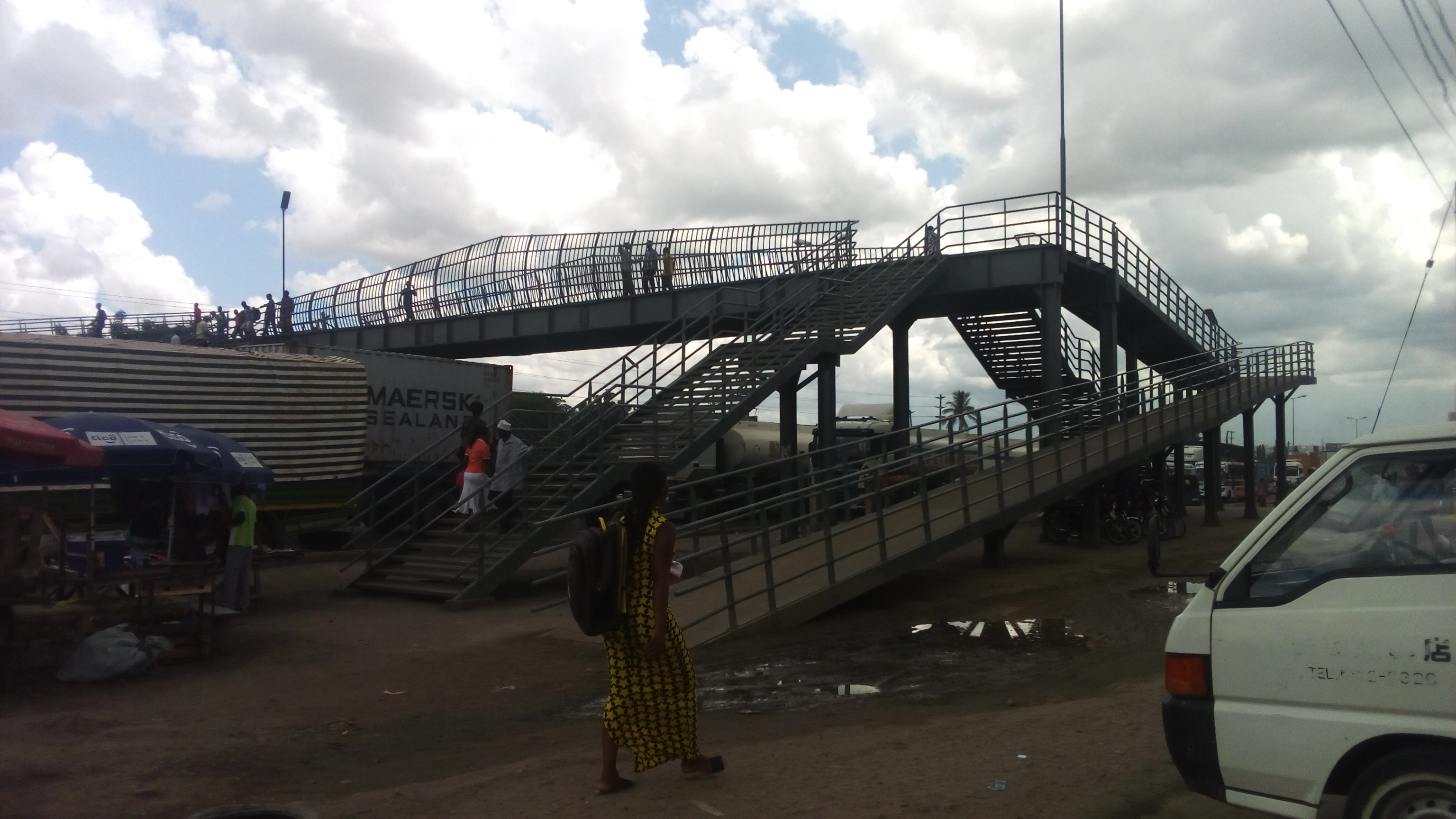 The overhead bridge at Buguruni, Dar es Salaam. The bridge is a major service for the people of Buguruni.